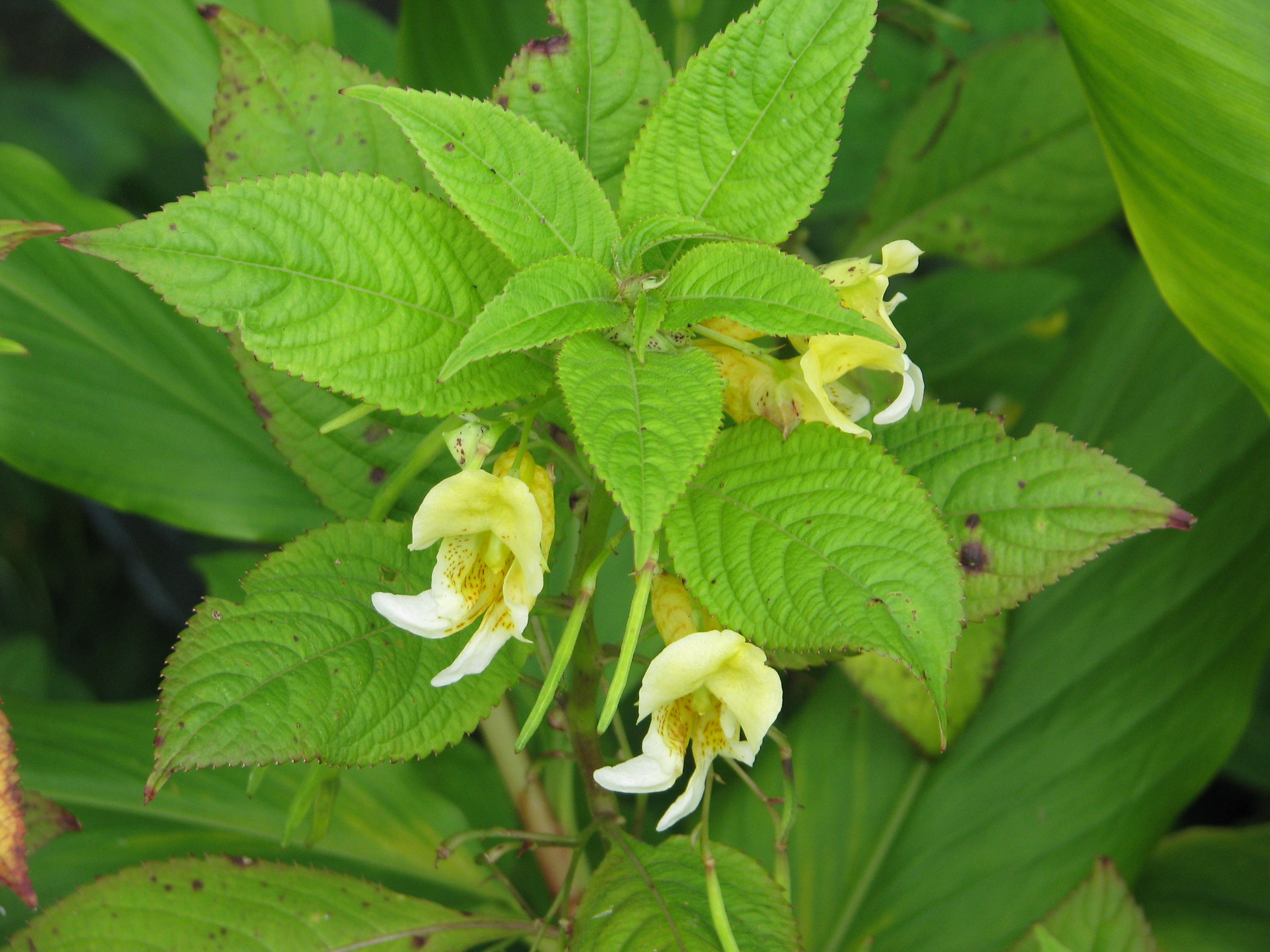 I want to see if these will become a pest before releasing them on the world